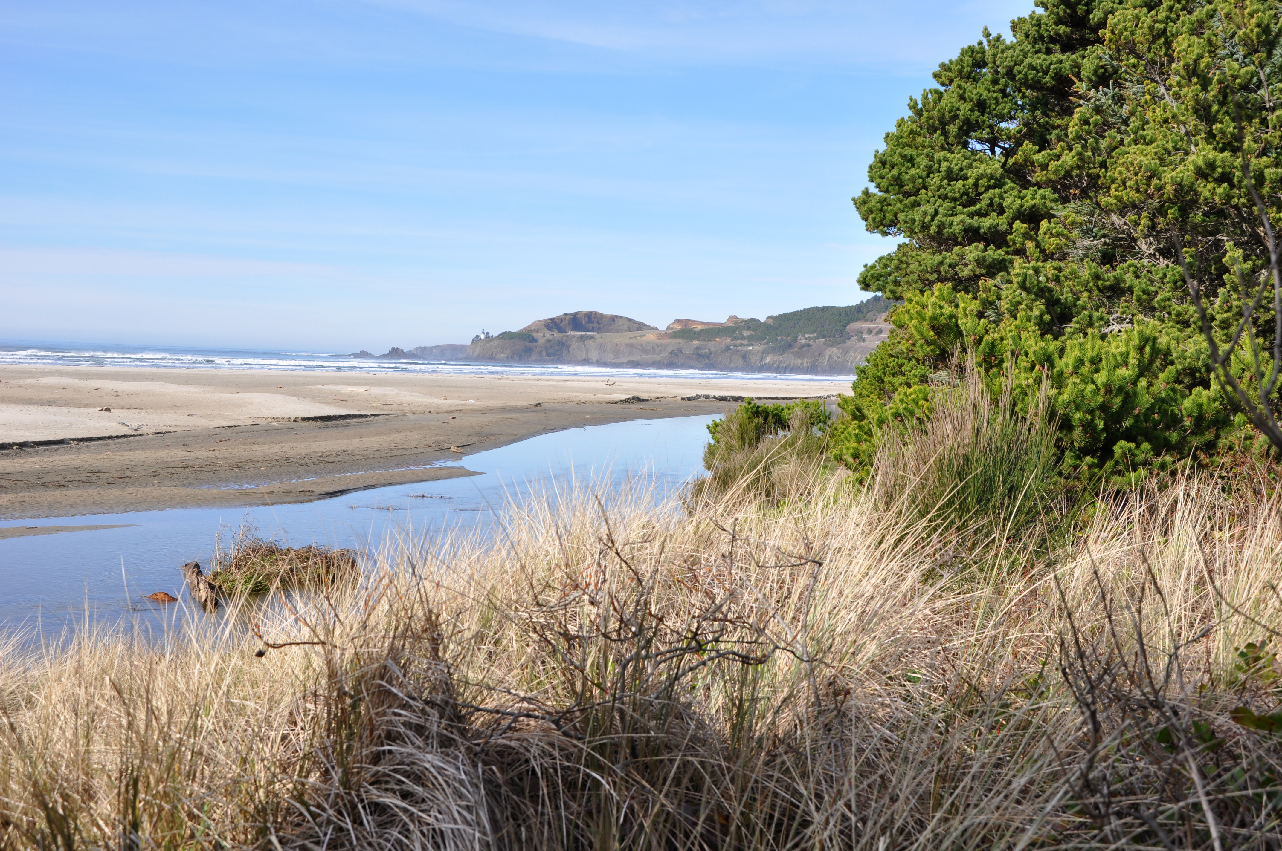 Agate Beach State Recreation Site north of Newport in the U.S. state of Oregon